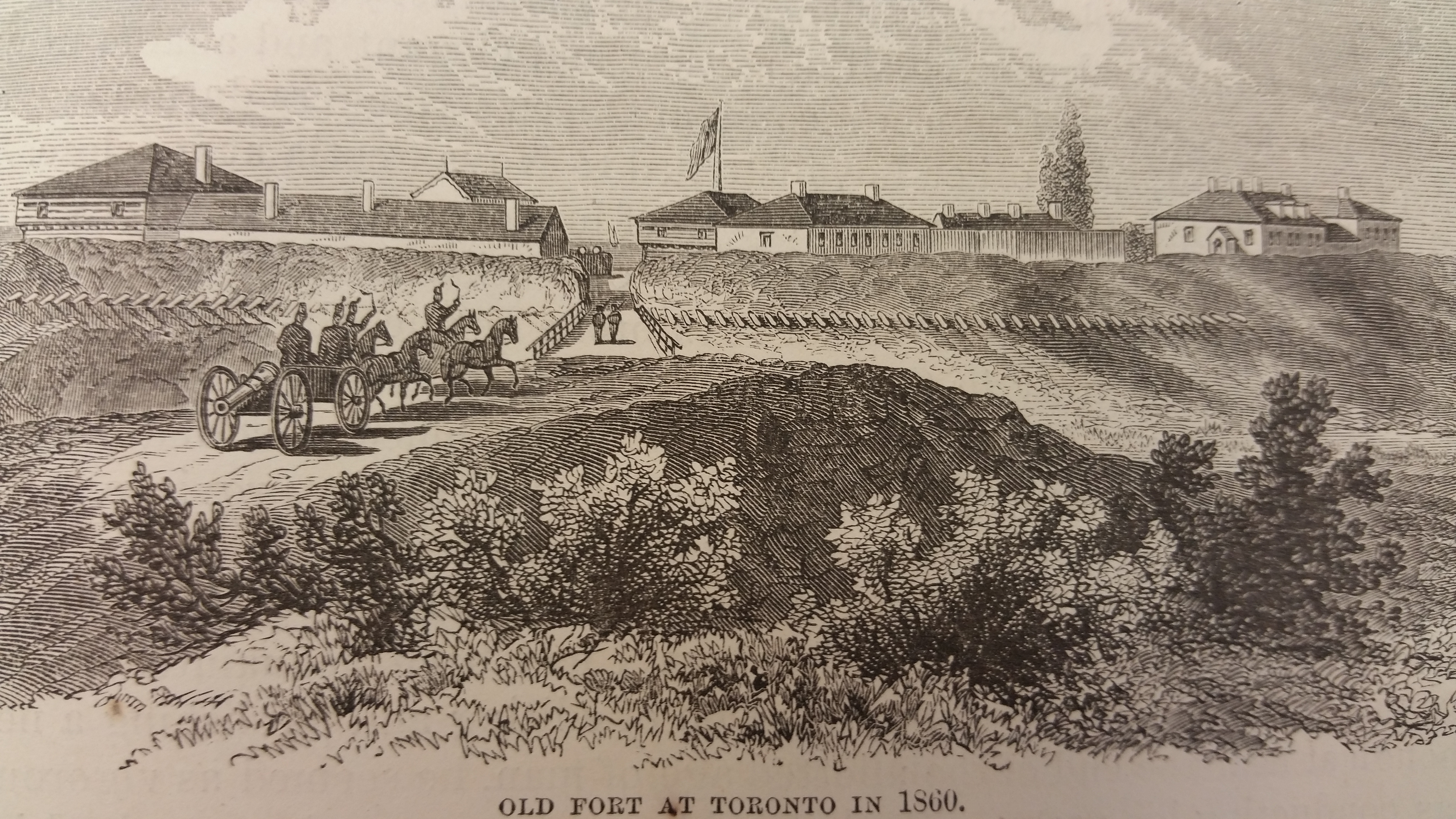 Fort Rouille